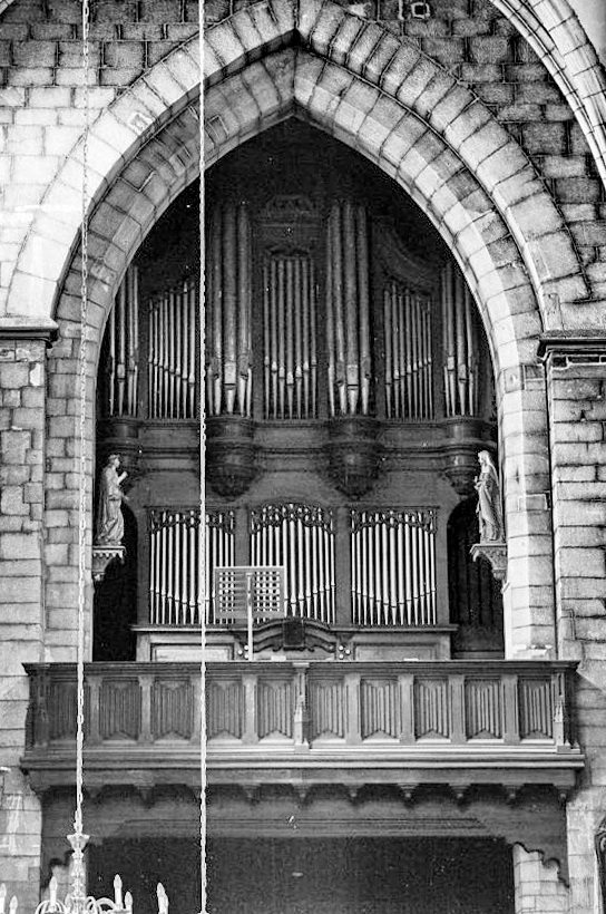 The organ of Saint Matthew's parish church in Maastricht, the Netherlands, in 1984. Detail of a photograph by Loek Tangel donated by RCE (see original).